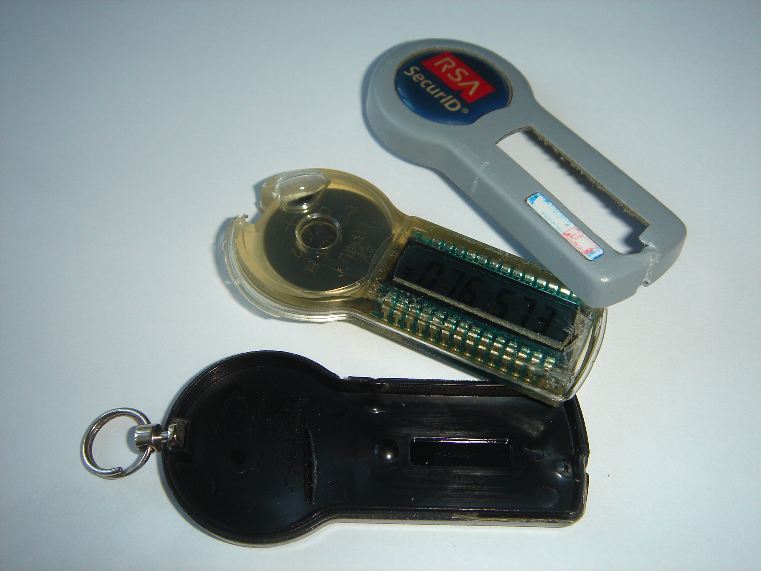 An RSA SecurID SID800 token without USB connector, components (1/2)